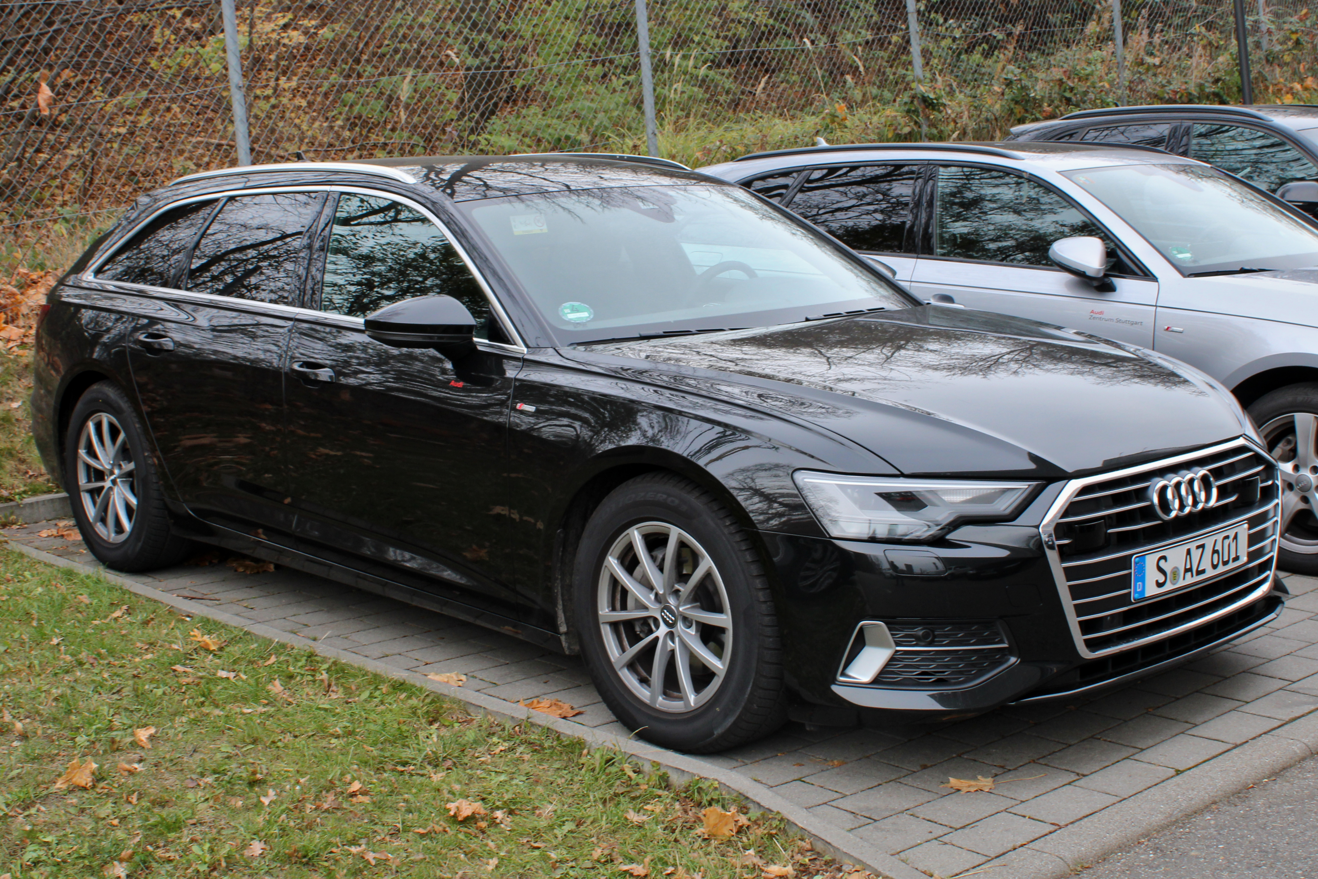 Audi A6 Avant C8 in Stuttgart-Vaihingen